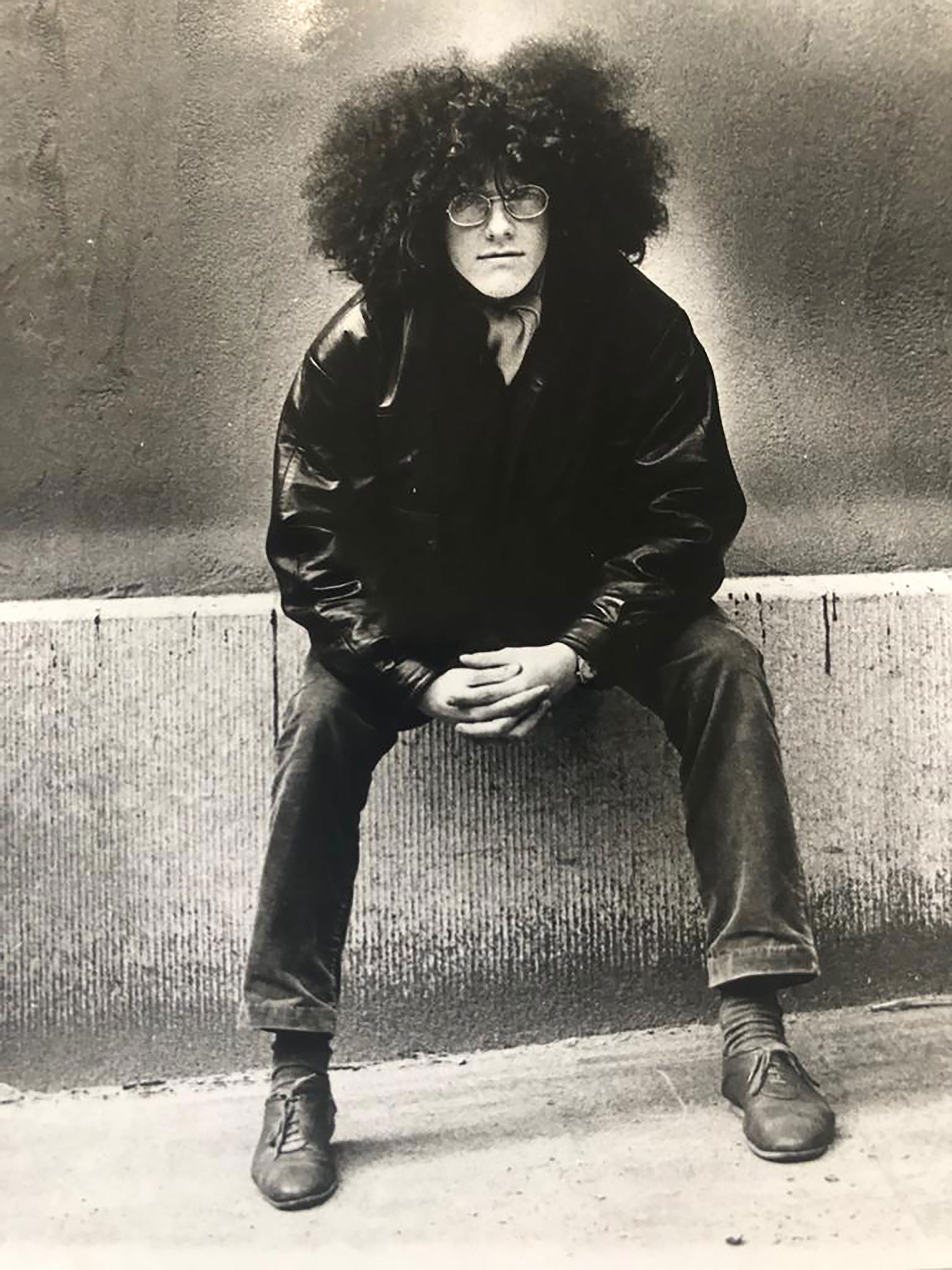 Bart Cassiman (1984)